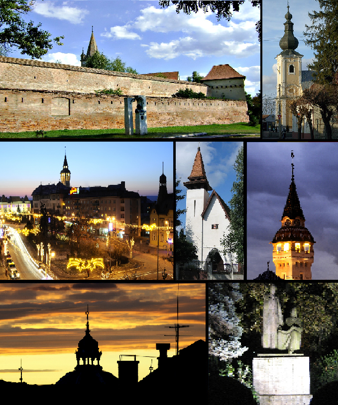 Collage about Târgu Mureș.